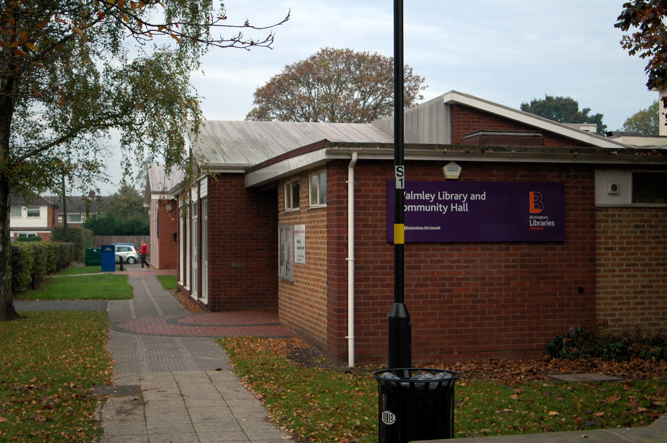 This is Walmley Library and Community Hall in Walmley village, Sutton Coldfield, Birmingham.